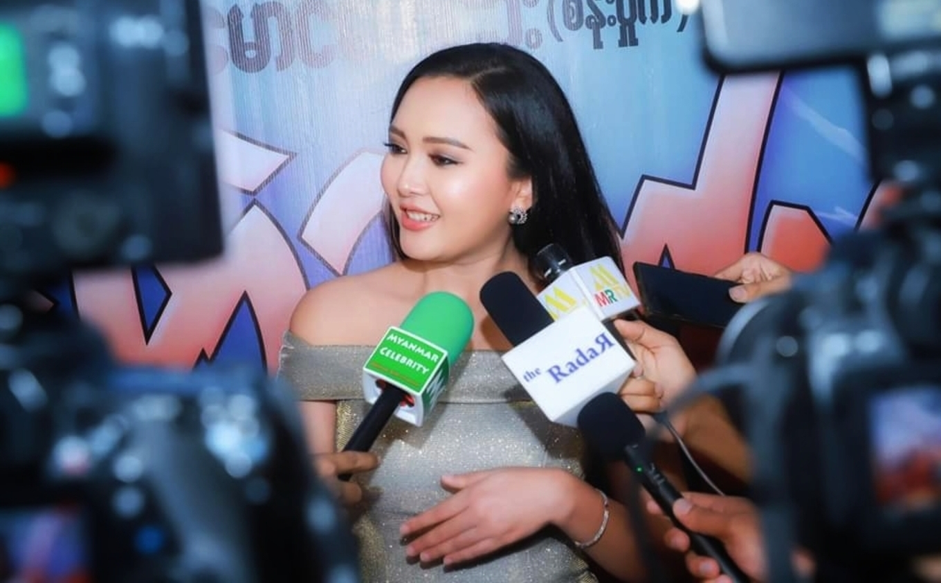 Wint Yamone Naing is a famous actress from Myanmar.